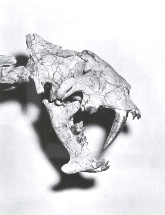 The skull of Hoplophoneus mentalis, showing the sabre-like teeth.